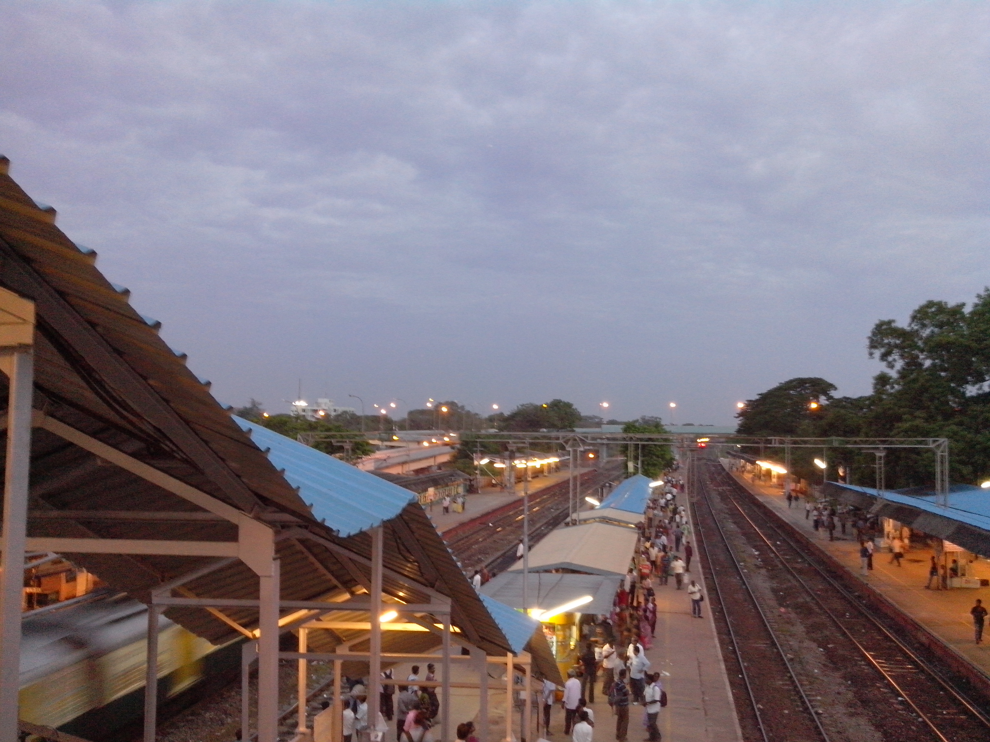 The Pic from Rail over Bridge in Perambur Railway Station